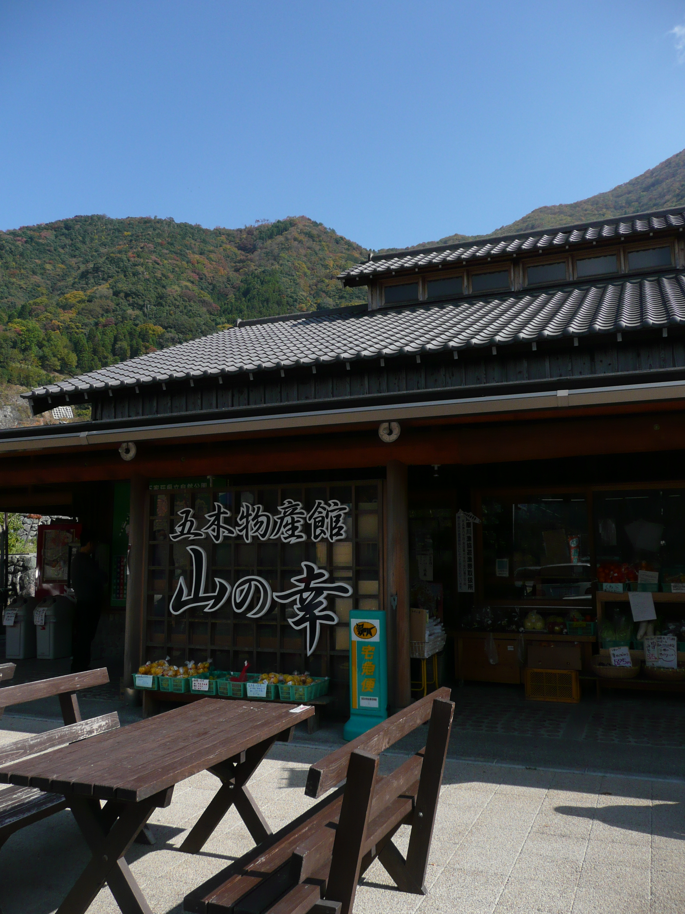 The Michinoeki Komori-Uta no Sato Itsuki is located in Itsuki Village, Kumamoto, Japan (National Route 445)